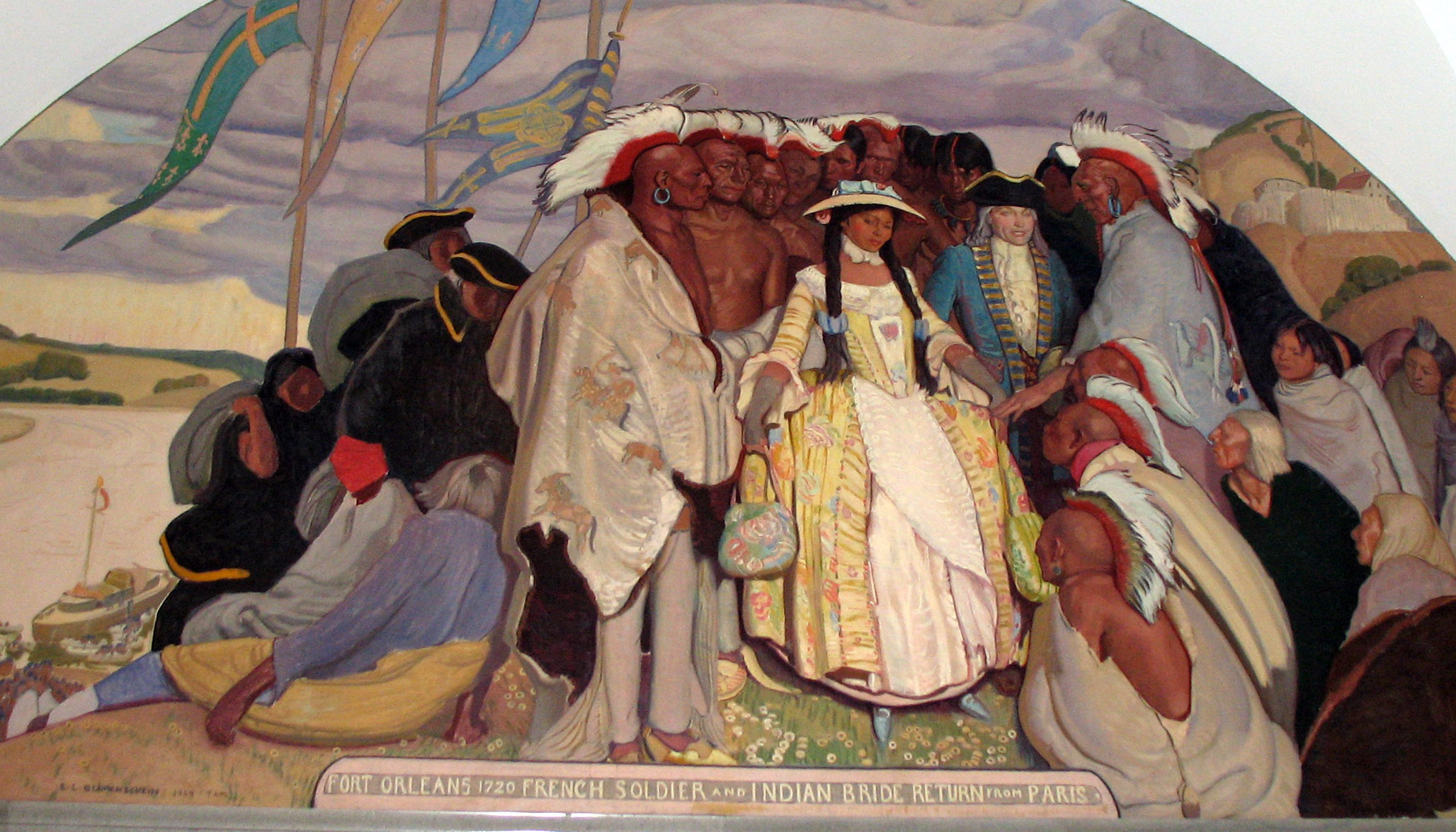 Return to Fort Orleans from Missouri State Capitol mural. (Info about this mural: Note the date on the caption is wrong. The trip to Paris was in 1725.